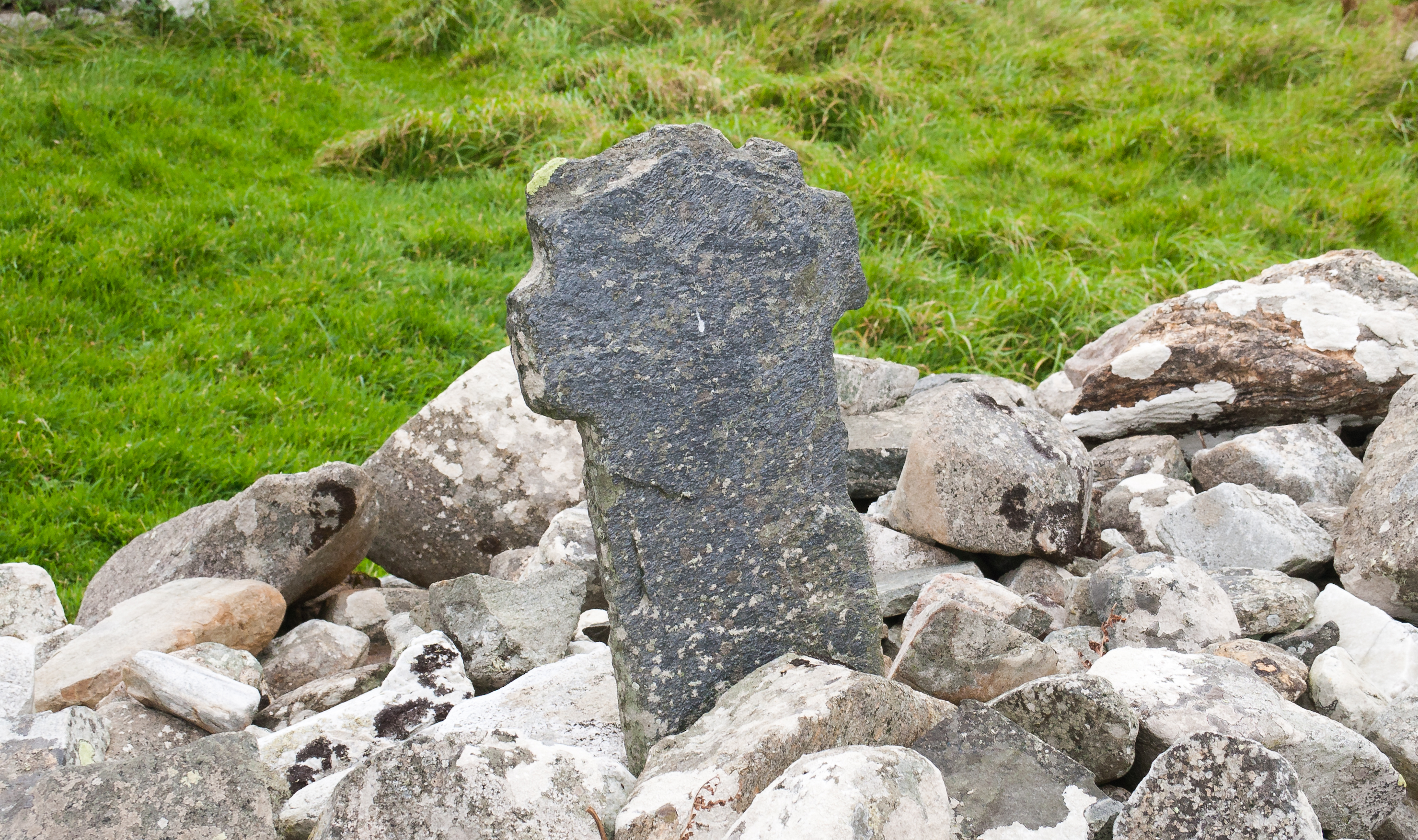 East face of a slab of schist on the central cairn within the enclosure of Séipéal Colm Cille (Columba's Chapel).